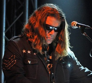 This is me on tour with Over the Rainbow.